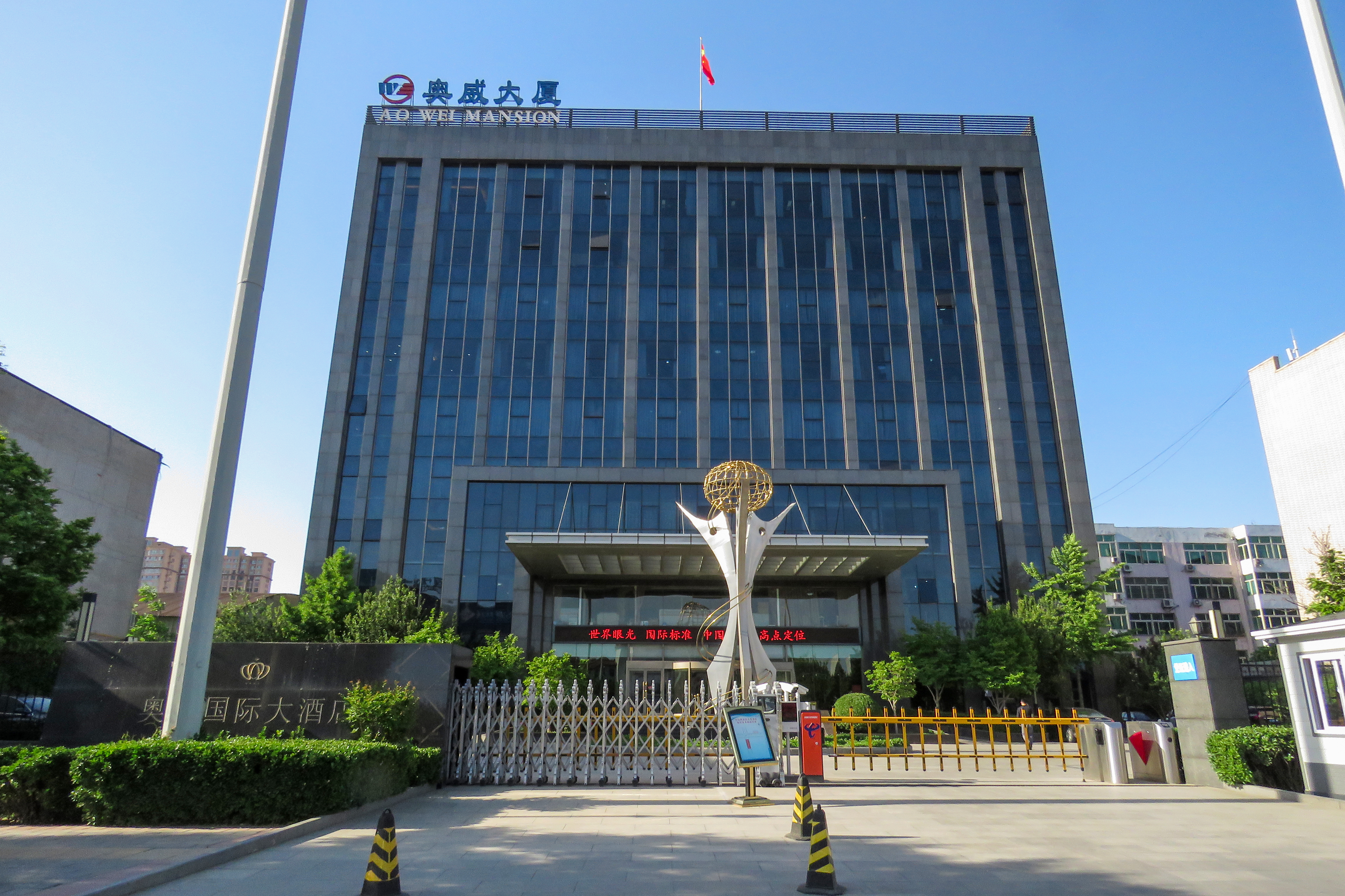 The management committee of Xiong'an New Area is right here in this hotel until the completion of Civic Center, which is also in Rongcheng.